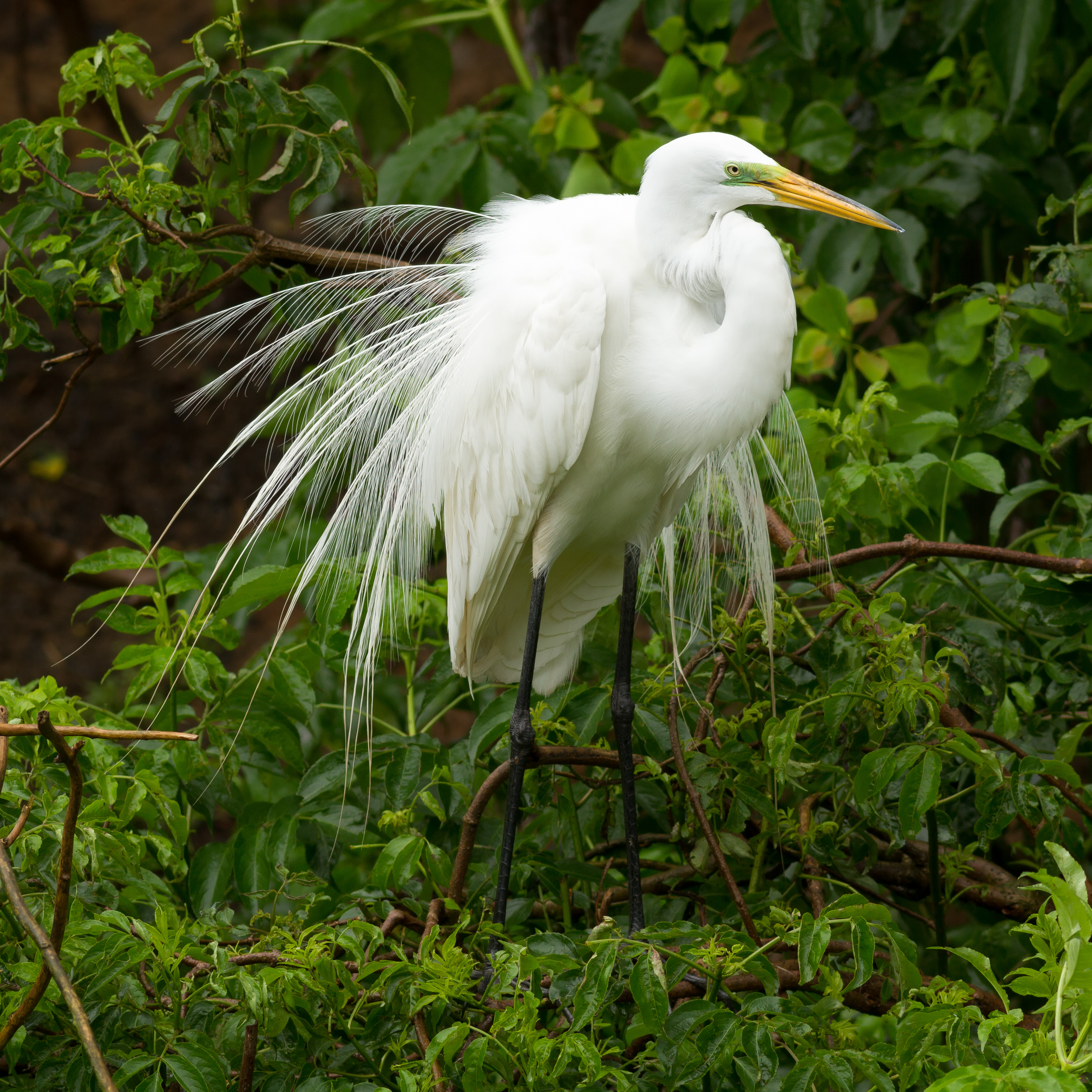 Great egret (Ardea alba) during mating season at Smith Oaks Sanctuary, High Island